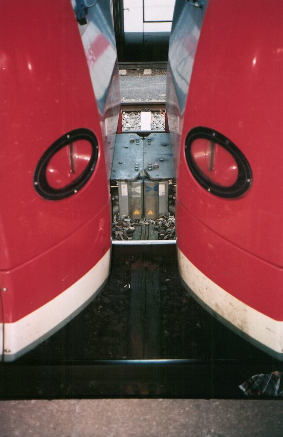 Coupled Schaku on a german class 425 in Mannheim my own photo